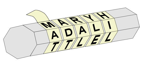 A scytale, a physical mechanism for encryption and decryption of a transposition cipher. This example shows the plaintext rendering of "Mary had a little lamb..."